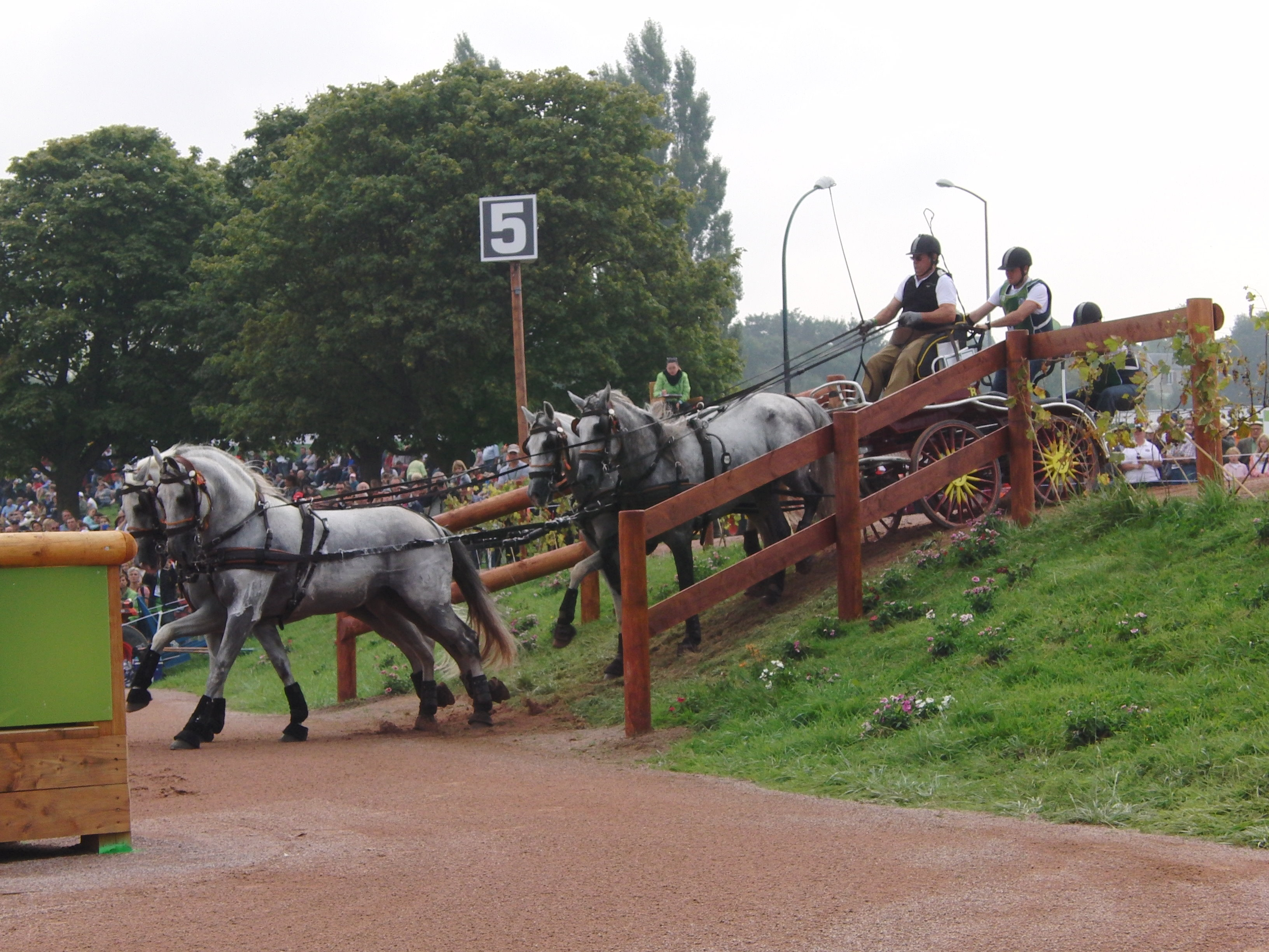 2014 FEI World Equestrian Games - Driving - Marathon - José Barranco Reyes and his andalusian horses for Spain